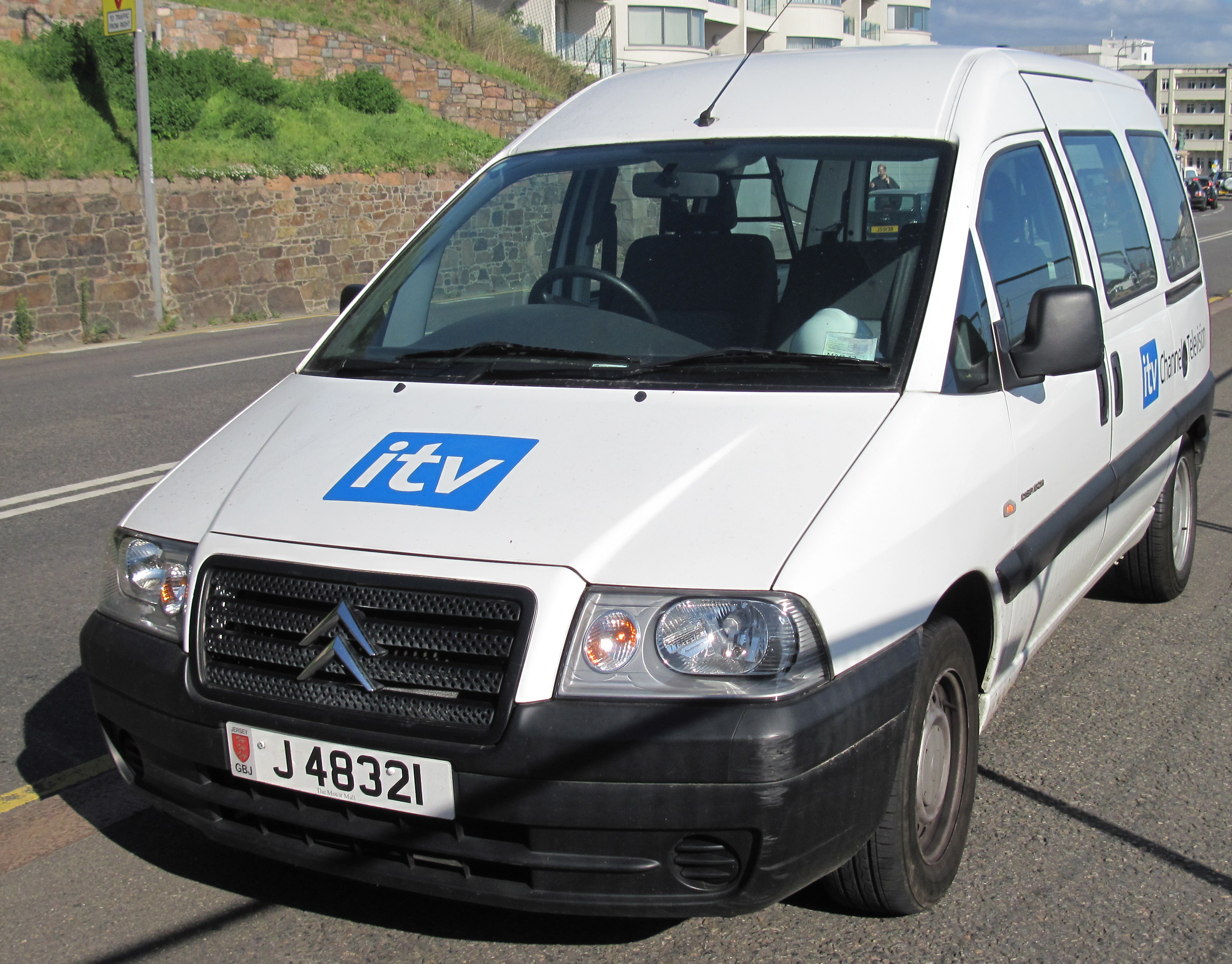 First generation Citroën Dispatch/Jumpy in Jersey, belonging to ITV Nrf: La Route dé Saint Aubîn, Saint Hélyi, Jèrri - eune vainne à Channel Television pouor la filméthie